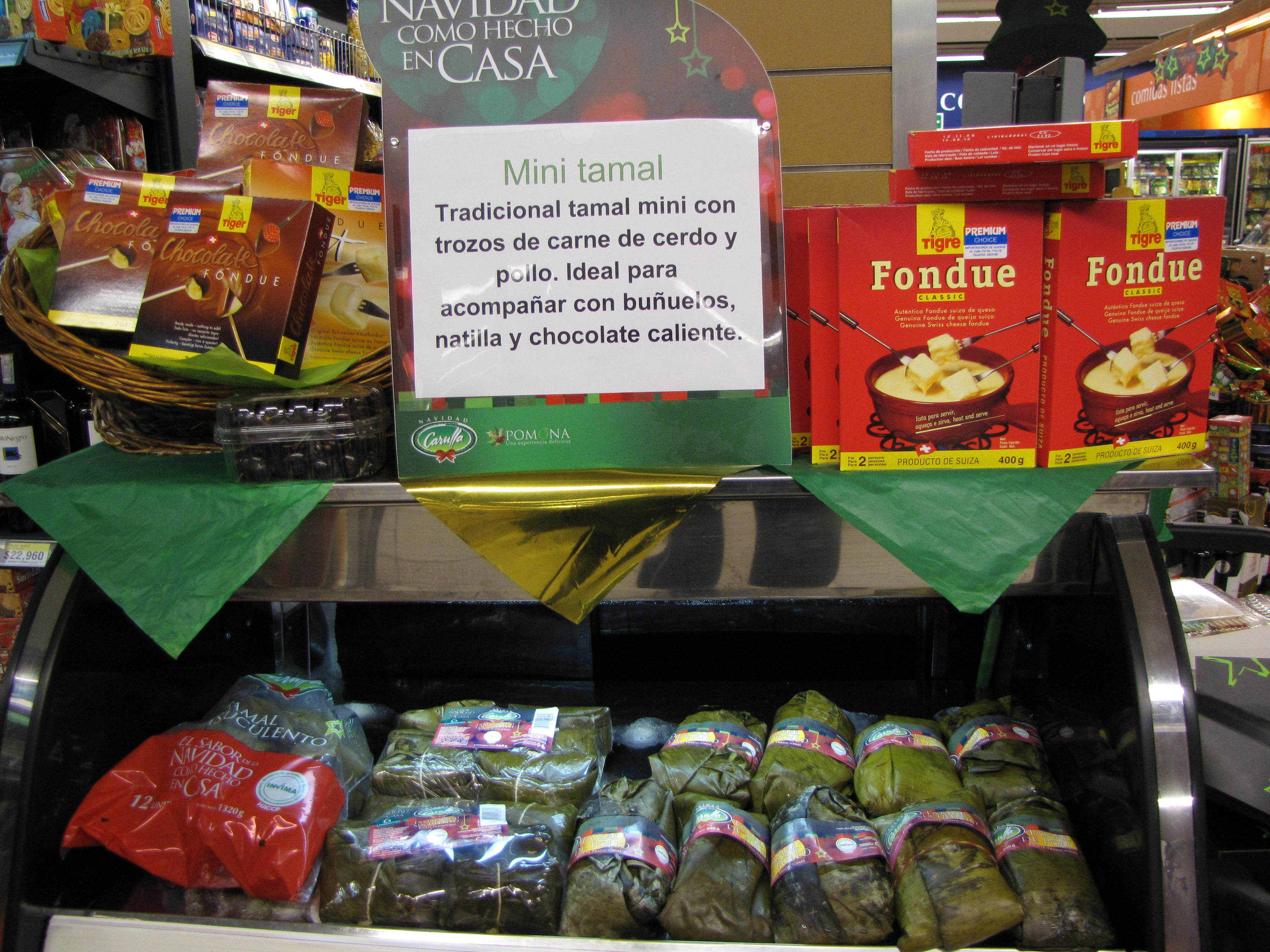 003, Tamalas, cheese fondue and choclate fondue (brand "Tiger" by Emmi, Switzerland)